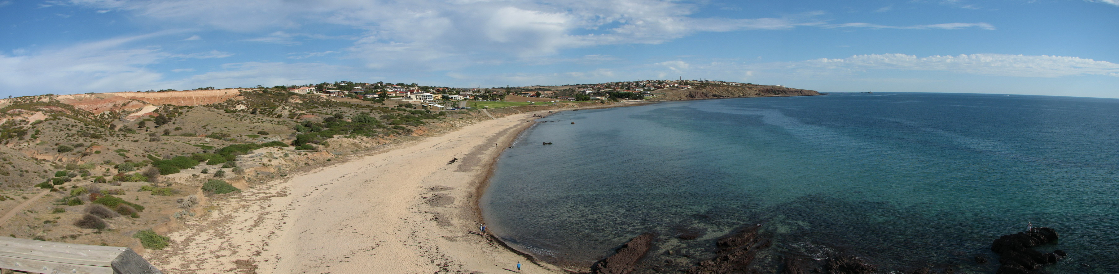 Panorama of Halett Cove, SA, Australia including Hallett Cove beach and conservation park.